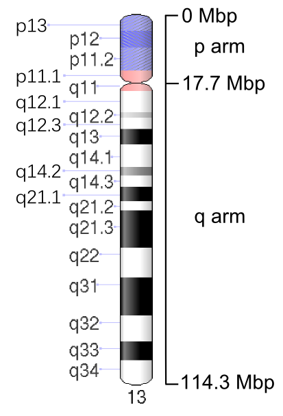 Ideogram of human chromosome 13. G-band, 550 bphs (bands per haploid set). Black and gray: Giemsa positive. Red: Centromere. Light blue: Variable region. Dark blue: Stalk. Mbp: Mega base pairs.